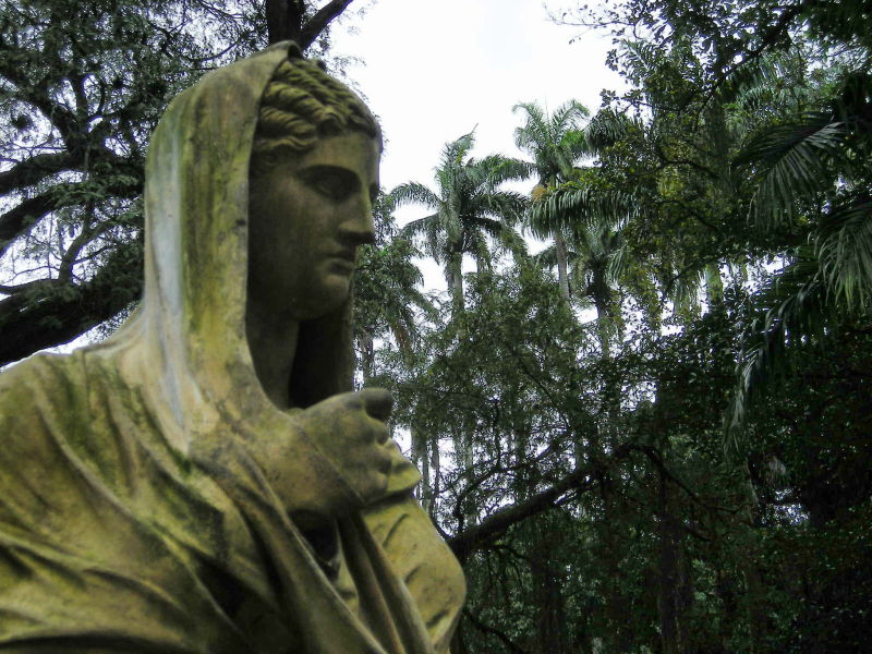 Sculpture in the gardens of Catete Palace, Rio de Janeiro, Brazil